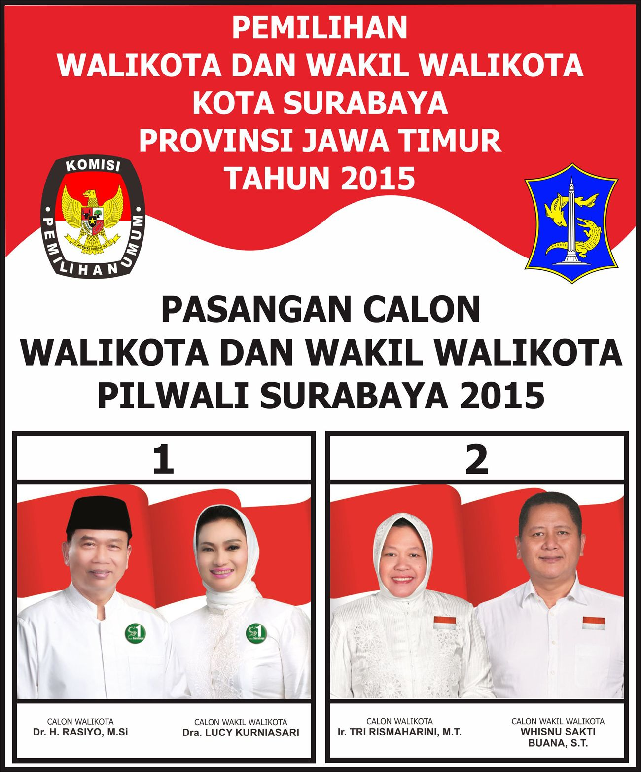 Photo of Candidate Pair of Mayor and Deputy Mayor of 2015 Surabaya major election. Candidate number 1 is Rasiyo-Lucy Kurniasari and candidate number 2 is Tri Rismaharini-Whisnu Sakti Buana